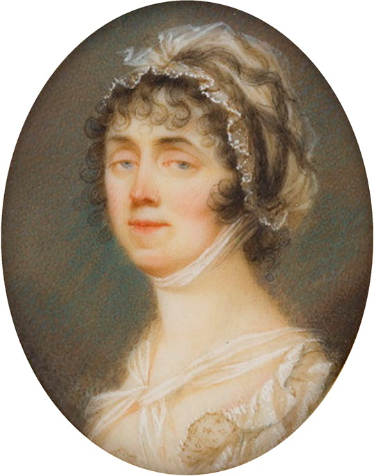 Portrait of Amalie of Hesse-Darmstadt (1754-1832), Princess of Baden